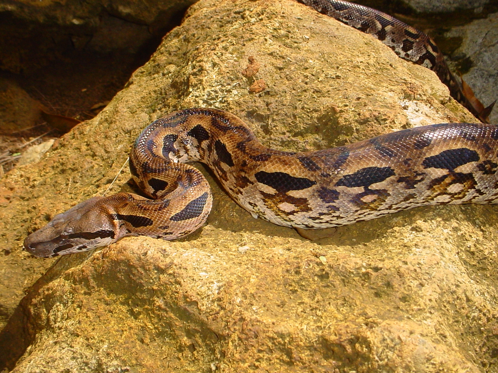 Northern Ground Boa (Acrantophis madagascariensis) from Madagascar, Nosy Komba